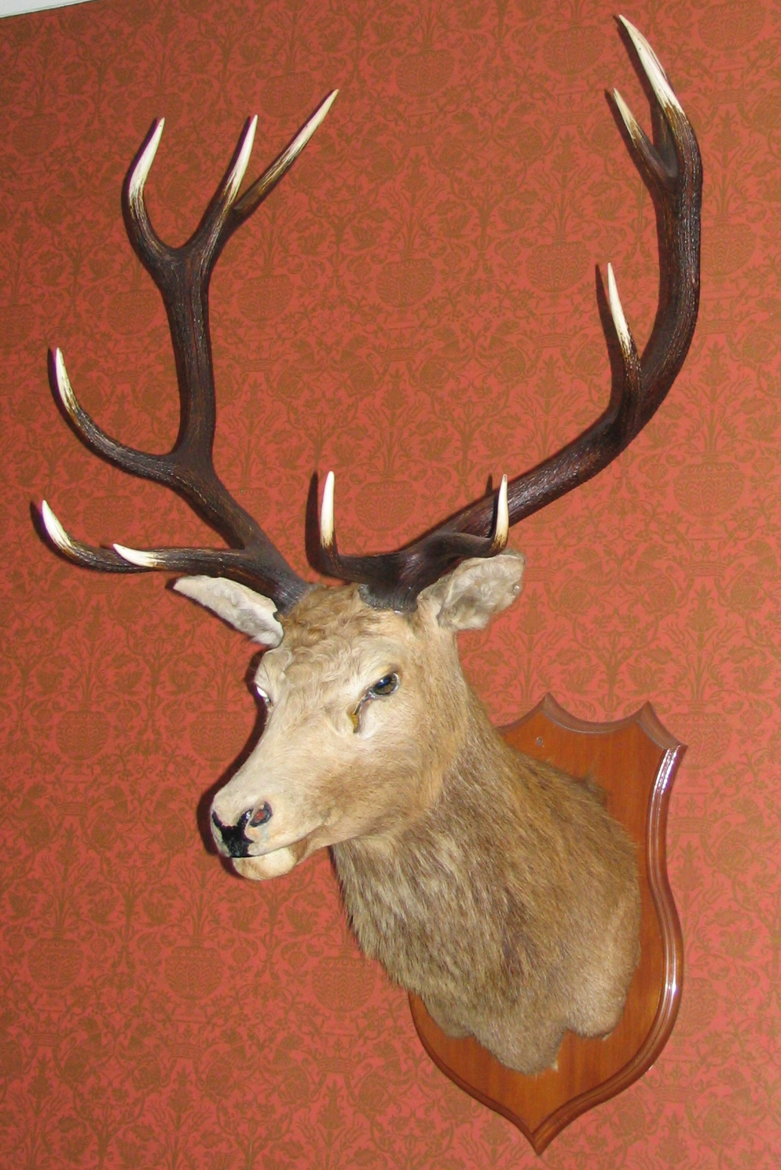 Deer trophy in the Billiard Room of the Dunedin Club, Dunedin, New Zealand.